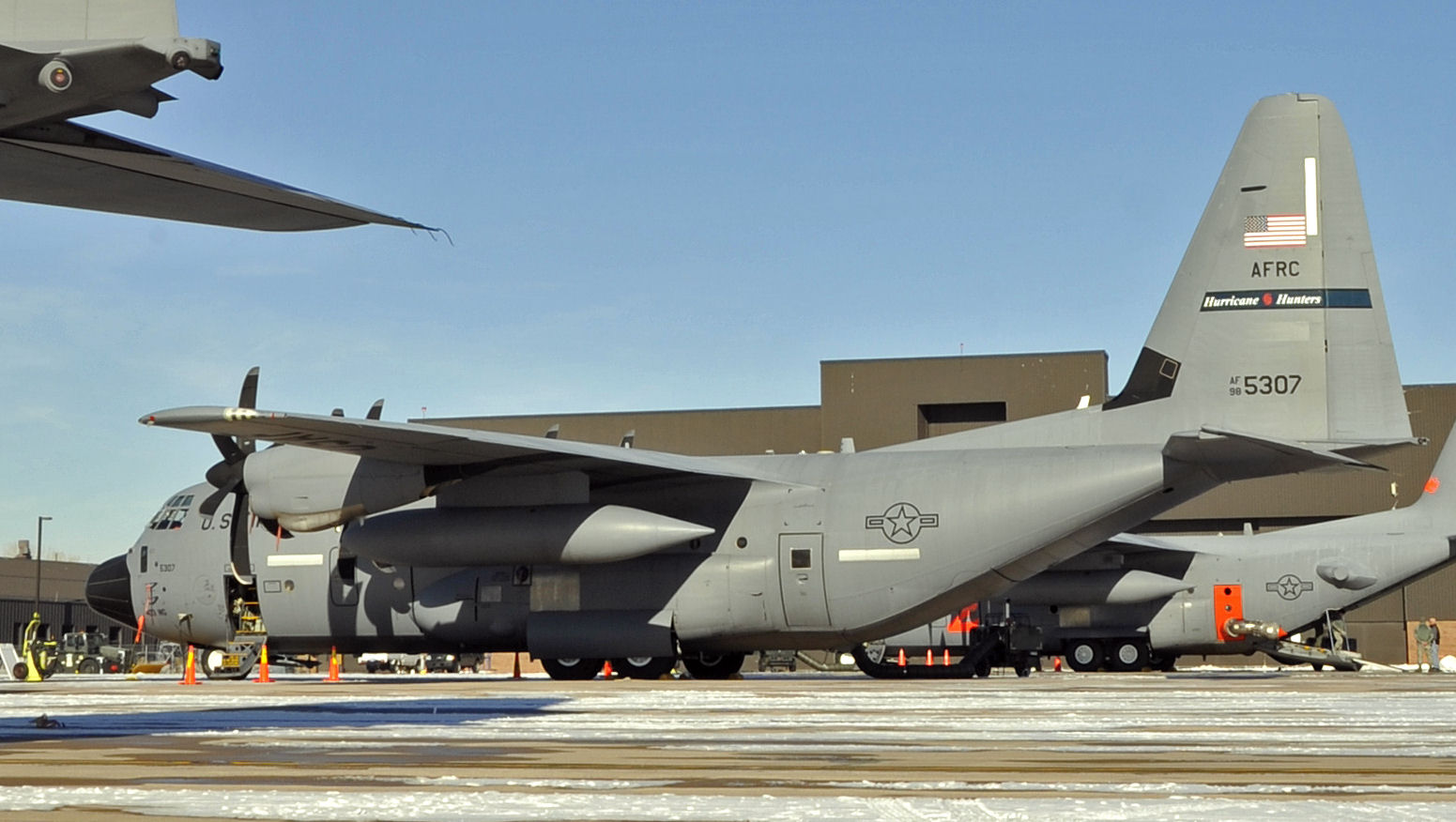 Citizen Airmen and aircraft from three Air Force Reserve Command special mission units convened for the first-ever AFRC C-130 Special Mission Conference at Peterson Air Force Base, Colo. Jan. 12-13. Among the participants were Reservists from the 403rd Wing and the 53rd Weather Reconnaissance Squadron "Hurricane Hunters." The Hurricane Hunters provide command and staff supervision in support of weather reconnaissance and are the only Department of Defense unit tasked to organize, equip, train and perform all hurricane weather reconnaissance in support of the Department of Commerce. The 403rd Wing is responsible for coordination, collecting and communicating critical weather data to the National Hurricane Center during flights into hurricanes and tropical storms. (U.S. Air Force Photo by Capt. Heather Garrett)